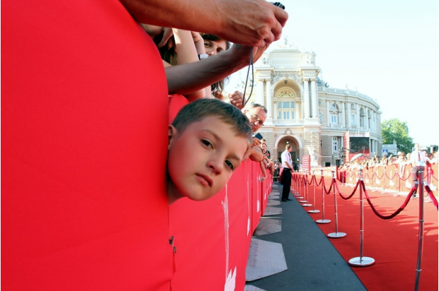 Odessa International Film Festival 2012